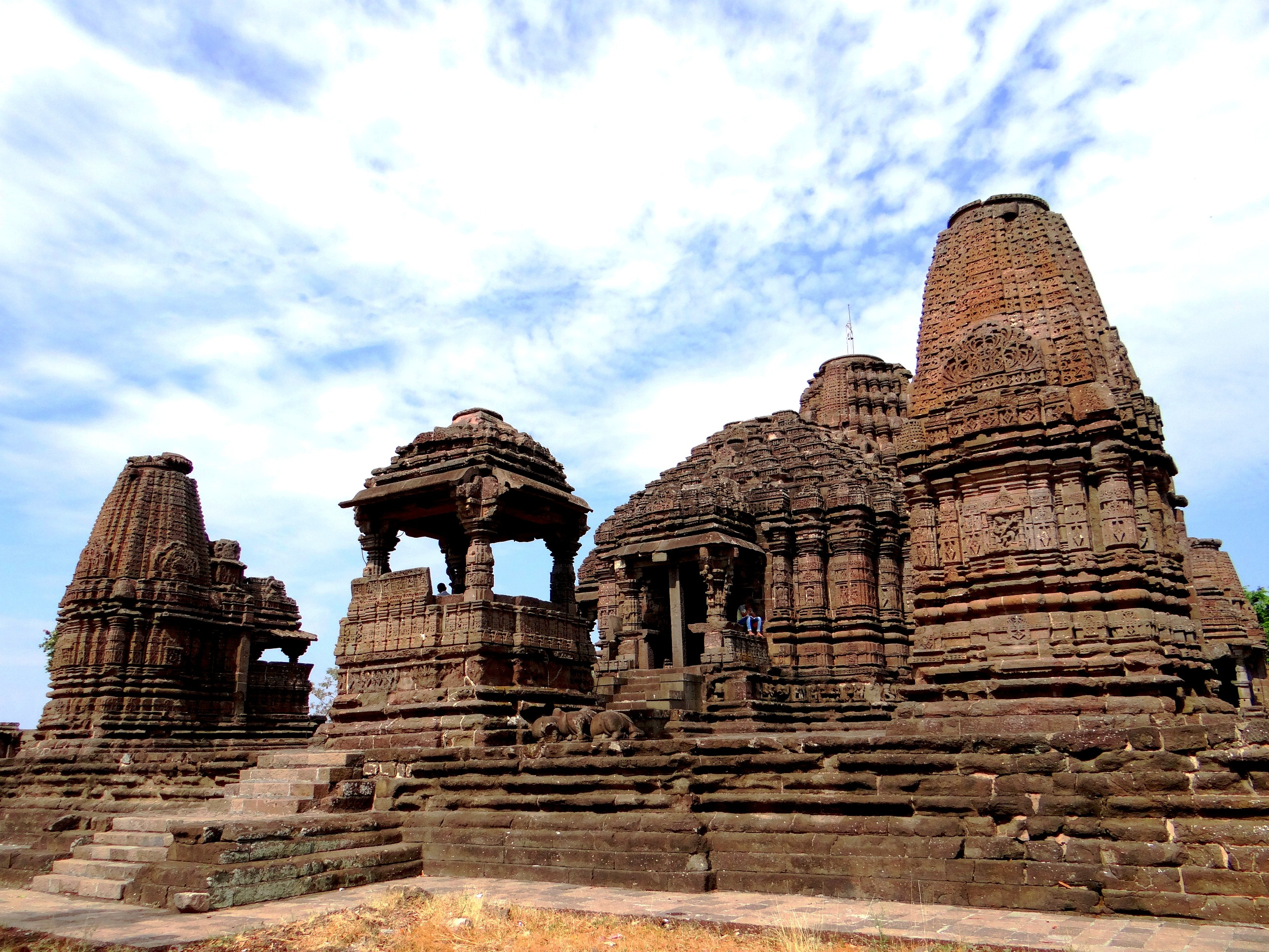 Ancient Gondeshwar Temple - Sinnar, Dist. Nashik, Maharashtra